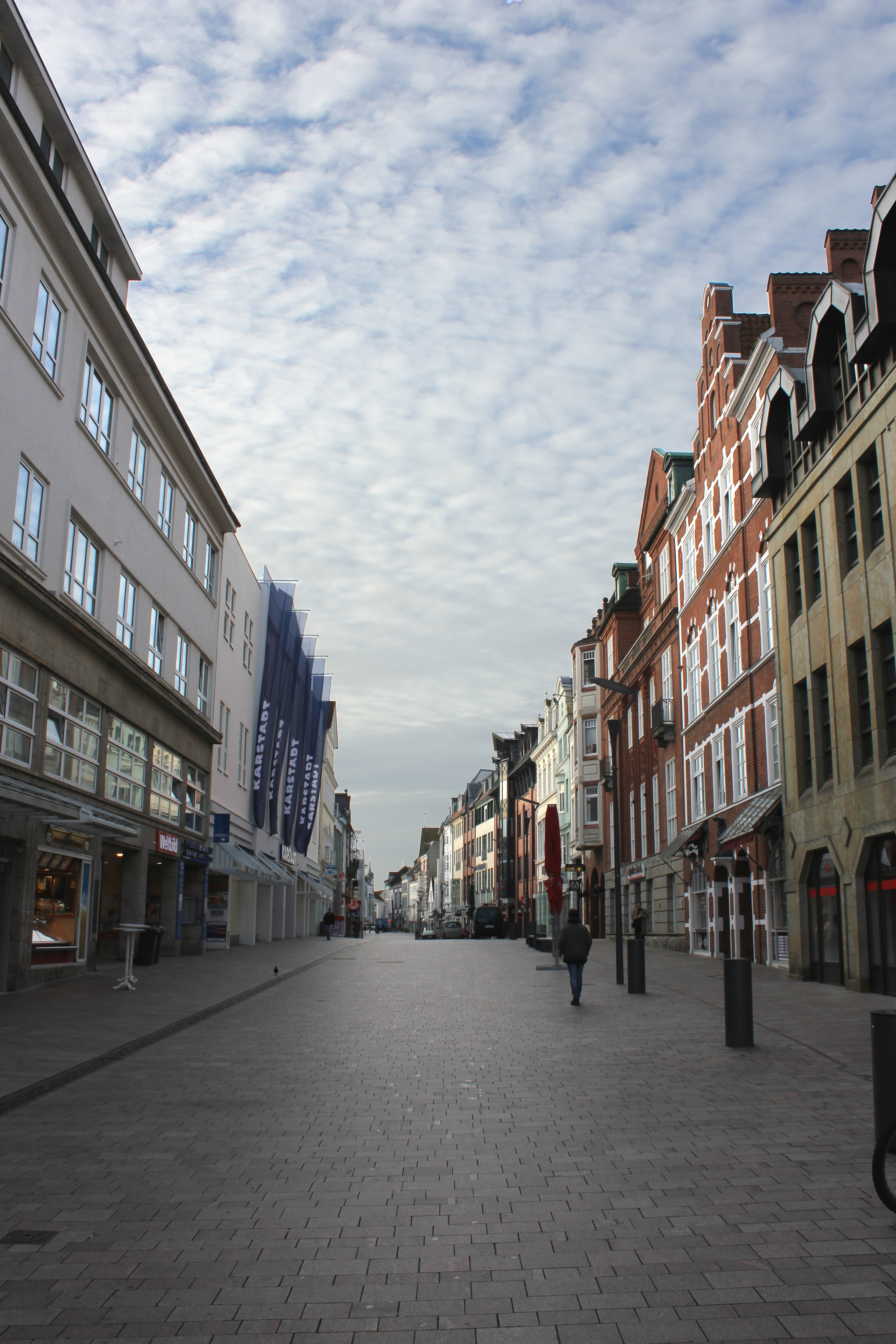 Holm (Flensburg), view from the (street) Rathausstraße